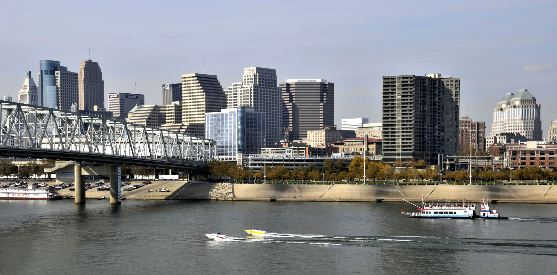 at the New Port Aquarium looking at Cincinnati